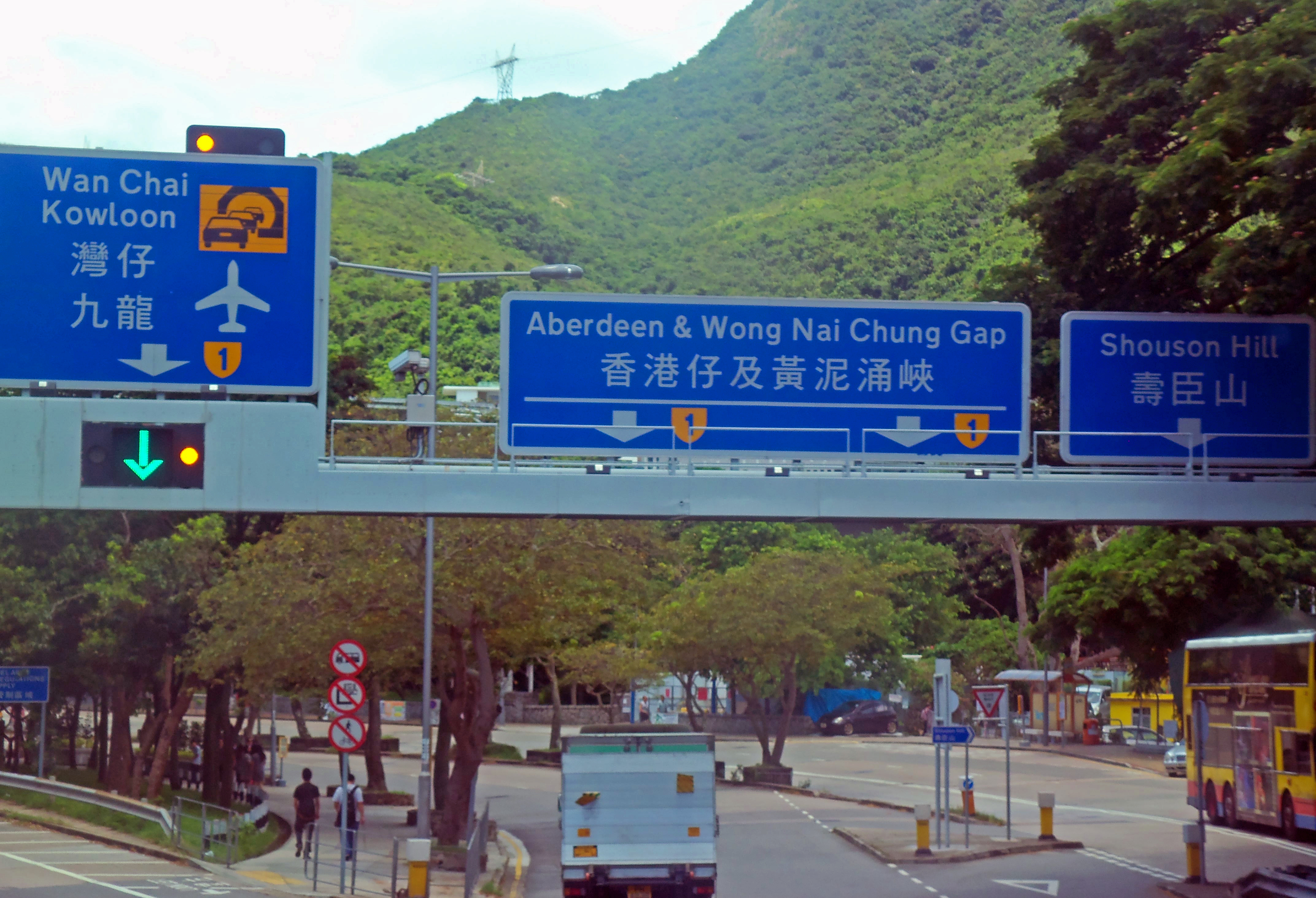 Sign gantry at junction of Island Road and Route 1 near Ocean Park, just south of approach to Aberdeen Tunnel from #260 bus.